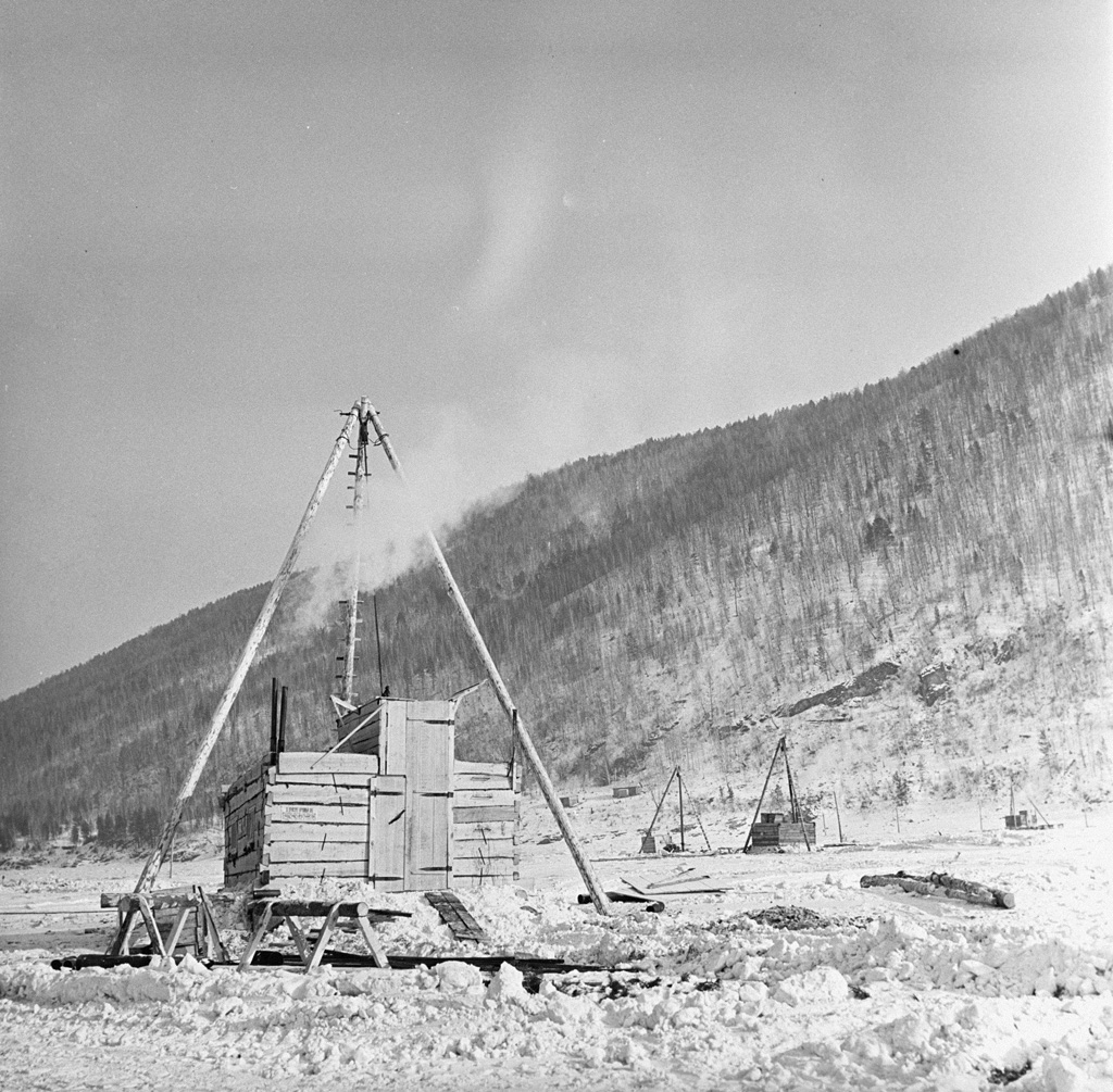 “Prospecting at construction site of Krasnoyarsk Hydro Power Plant”. Prospecting at the construction site of the Krasnoyarsk Hydro Power Plant on the Yenisei River. 1958.